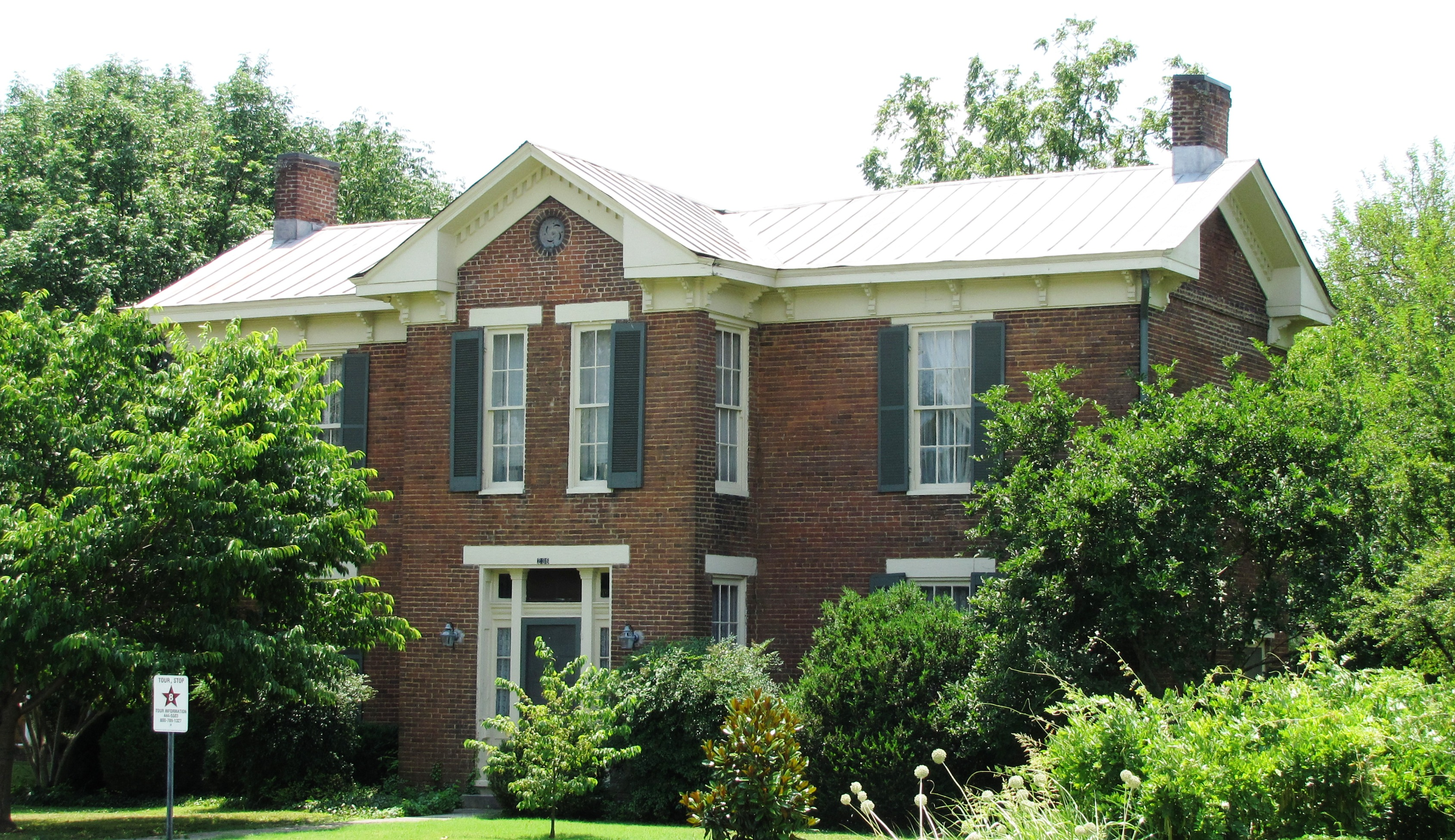 The Fite-Fessenden House - and historic house museum - (236 West Main St.) in Lebanon, Tennessee, USA. Built by Dr. James Fite in the years following the Civil War, the house is now home to the Wilson County Museum, and is listed on the National Register of Historic Places (the Register lists its address as "326 W. Main")